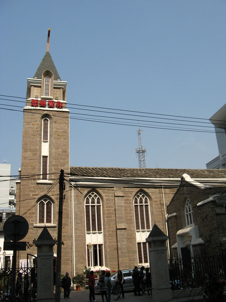 Flower Lane Church, Fuzhou